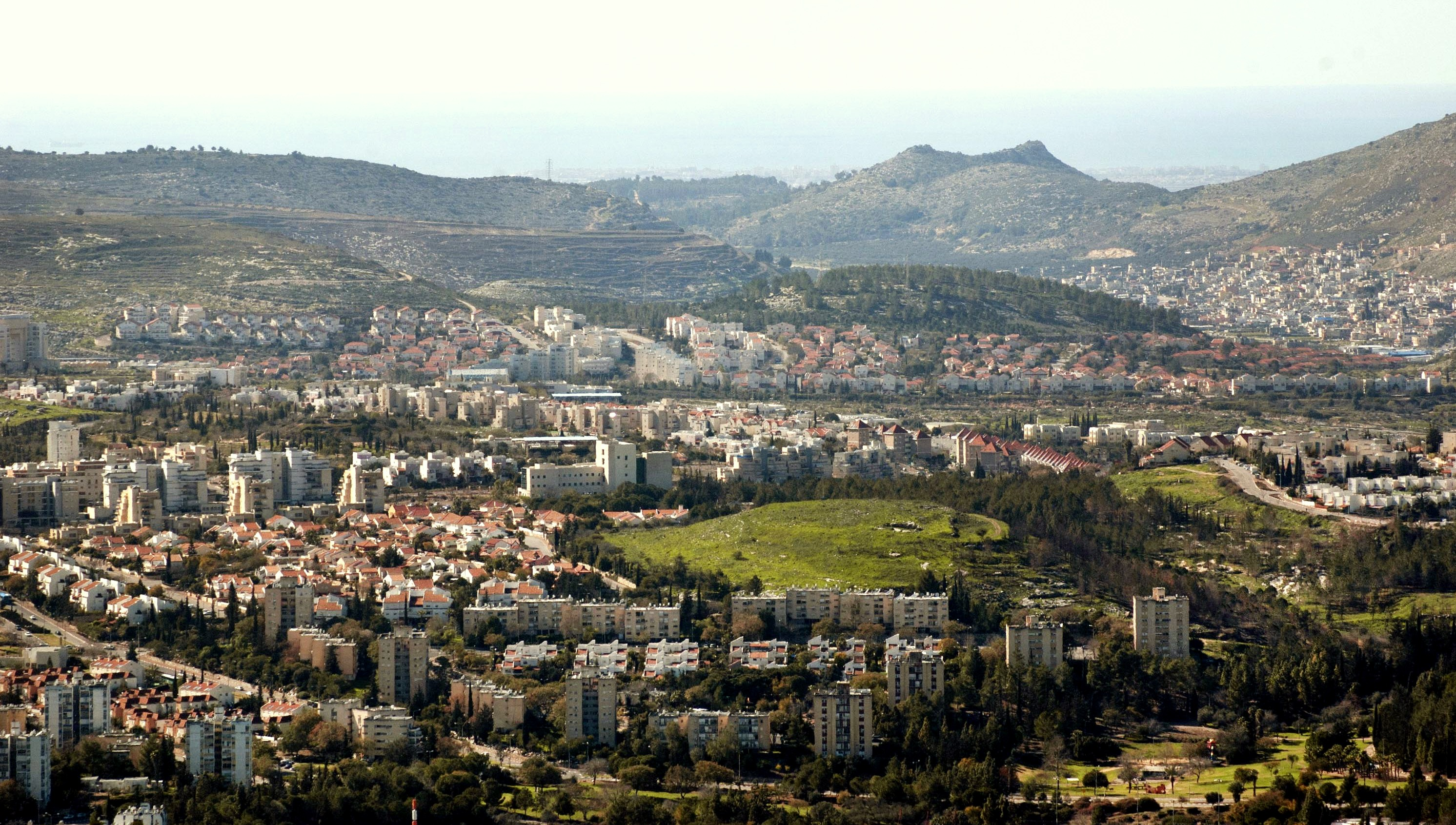 karmiel overview from Michmanim